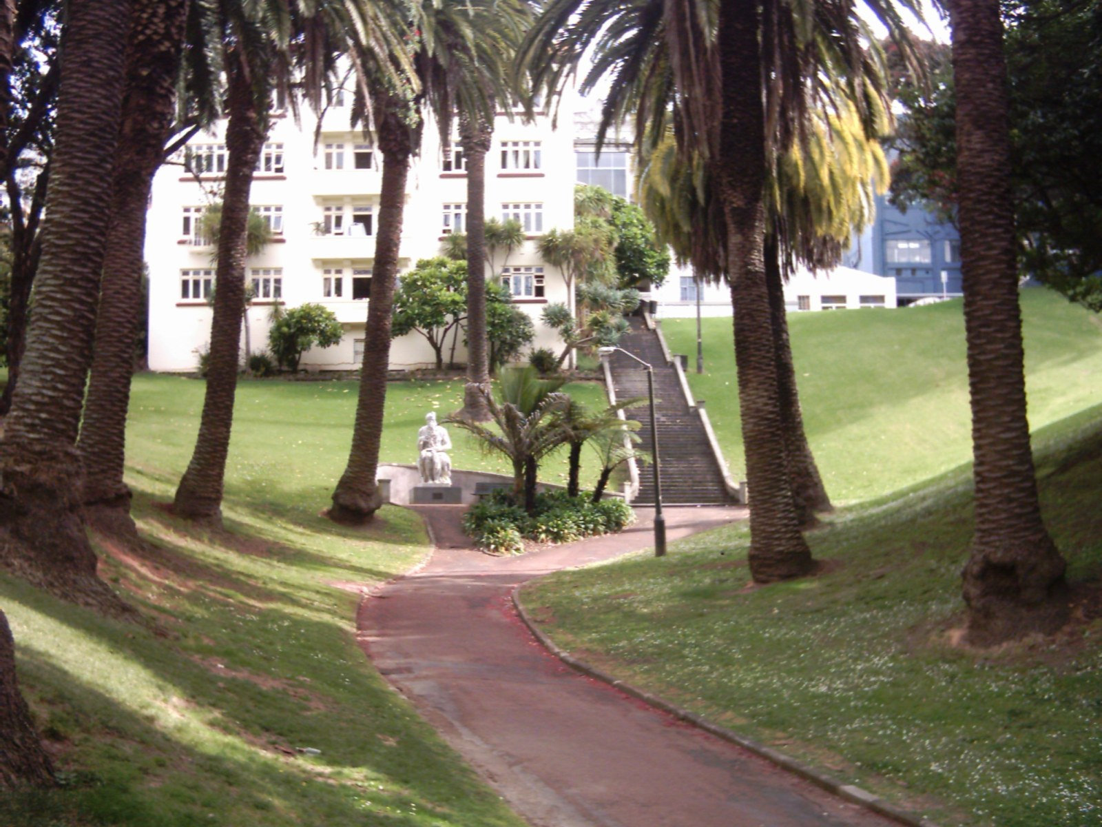 The main, palm-lined path in the upper part of Myers Park, Auckland City, New Zealand. Looking southwards showing the 'Moses' replica statue and the stairs up to Karangahape Road. With large palm trees (Phoenix canariensis).